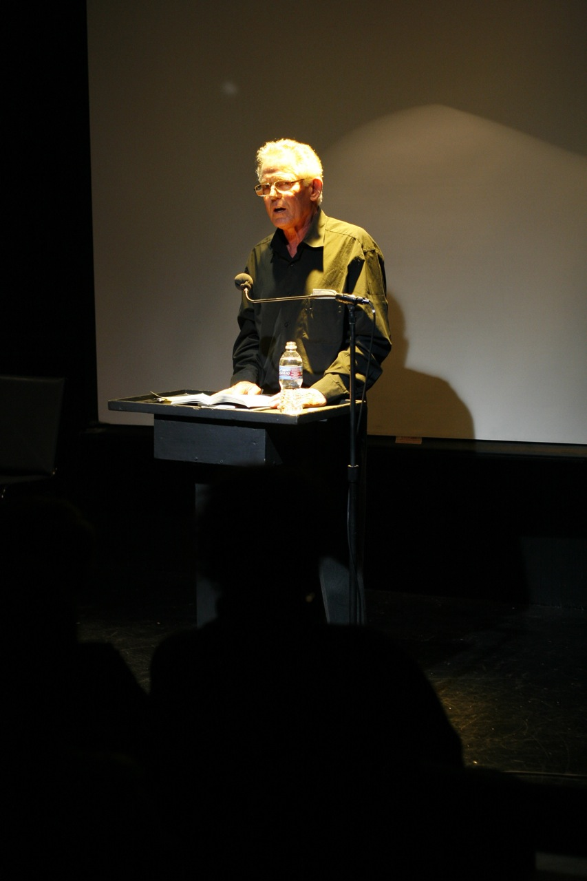 Bill Berkson; poet, critic, teacher, editor, curator, and author of sixteen books and pamphlets of poetry; speaking at Beyond Baroque Literary Arts Center, Los Angeles.